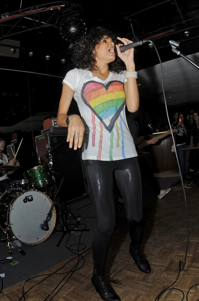 Vita Chambers performing in 2009